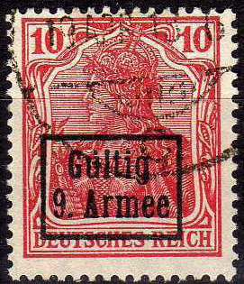 Postage stamp for the 9th Army of German Empire in occupied Romania, 10 pfennigs, 1918